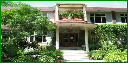 مرکز بین المللی میکرو فیلم نور